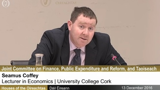 Seamus Coffey, Chairman of IFAC, testifying to the Joint Committee on Finance, Public Expenditure, and Reform in Dail Eireann (Dec 2016)